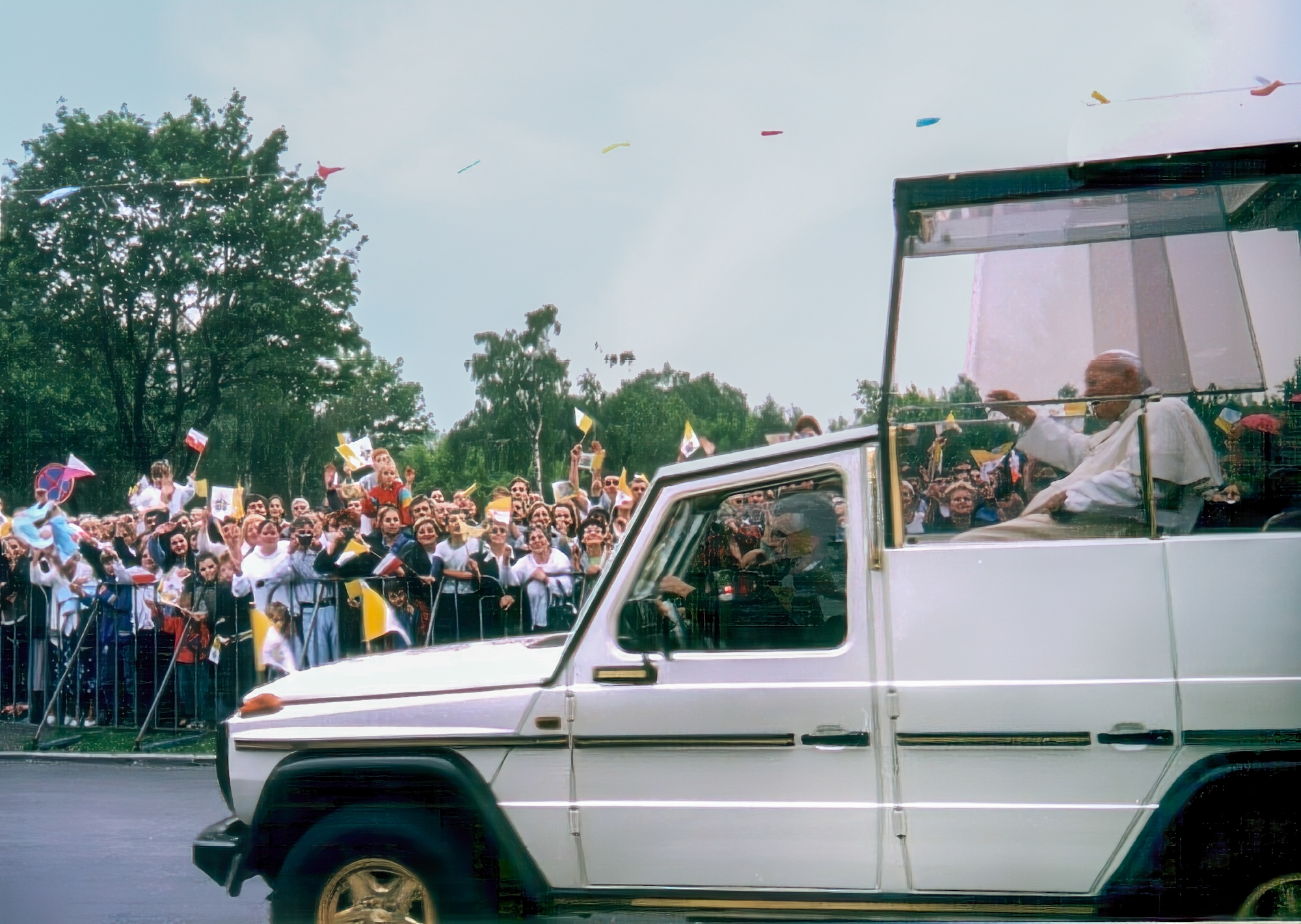 'Pope John Paul II in Sosnowiec (1999)